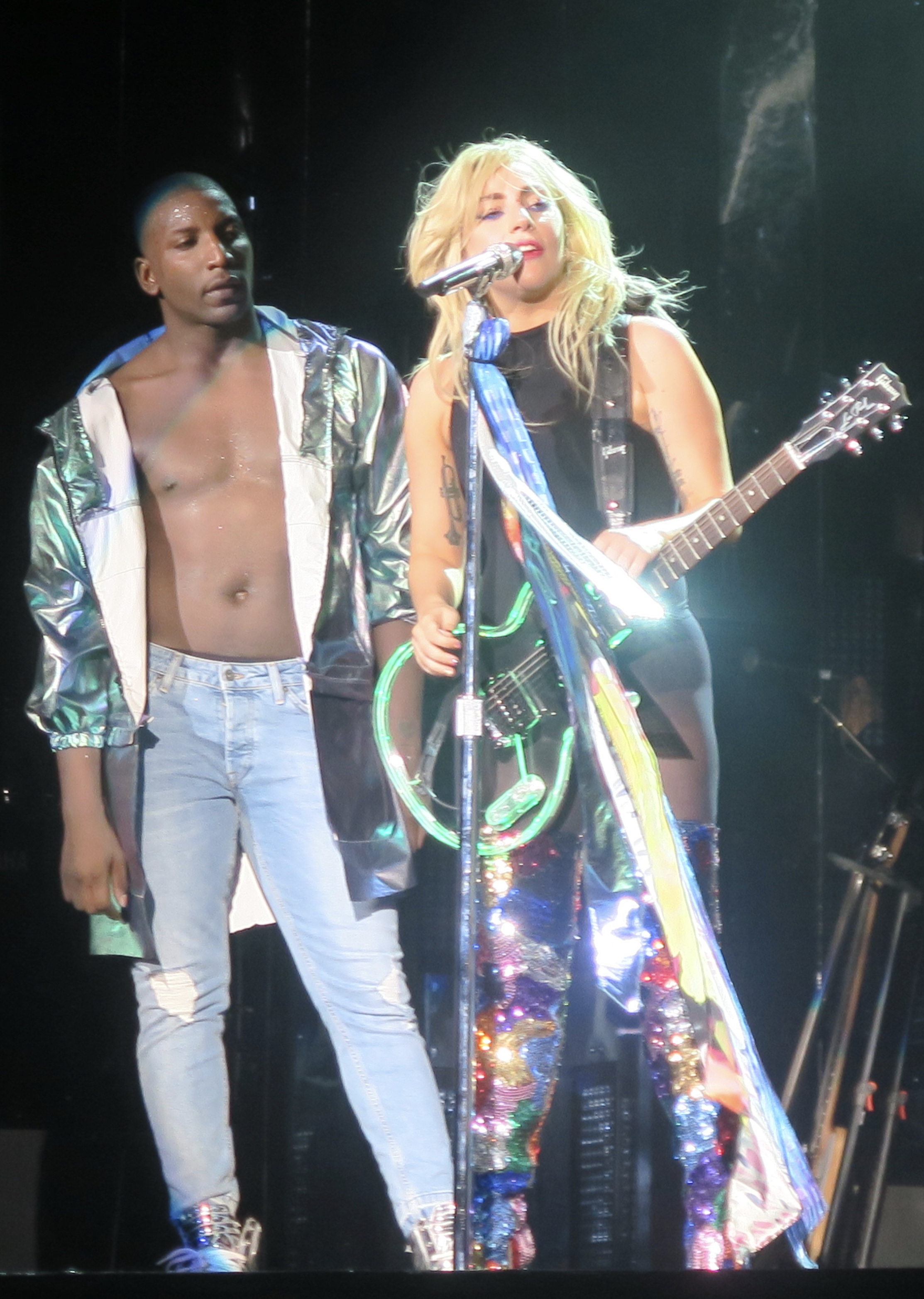 Lady Gaga performing "A-Yo" at Coachella in 2017